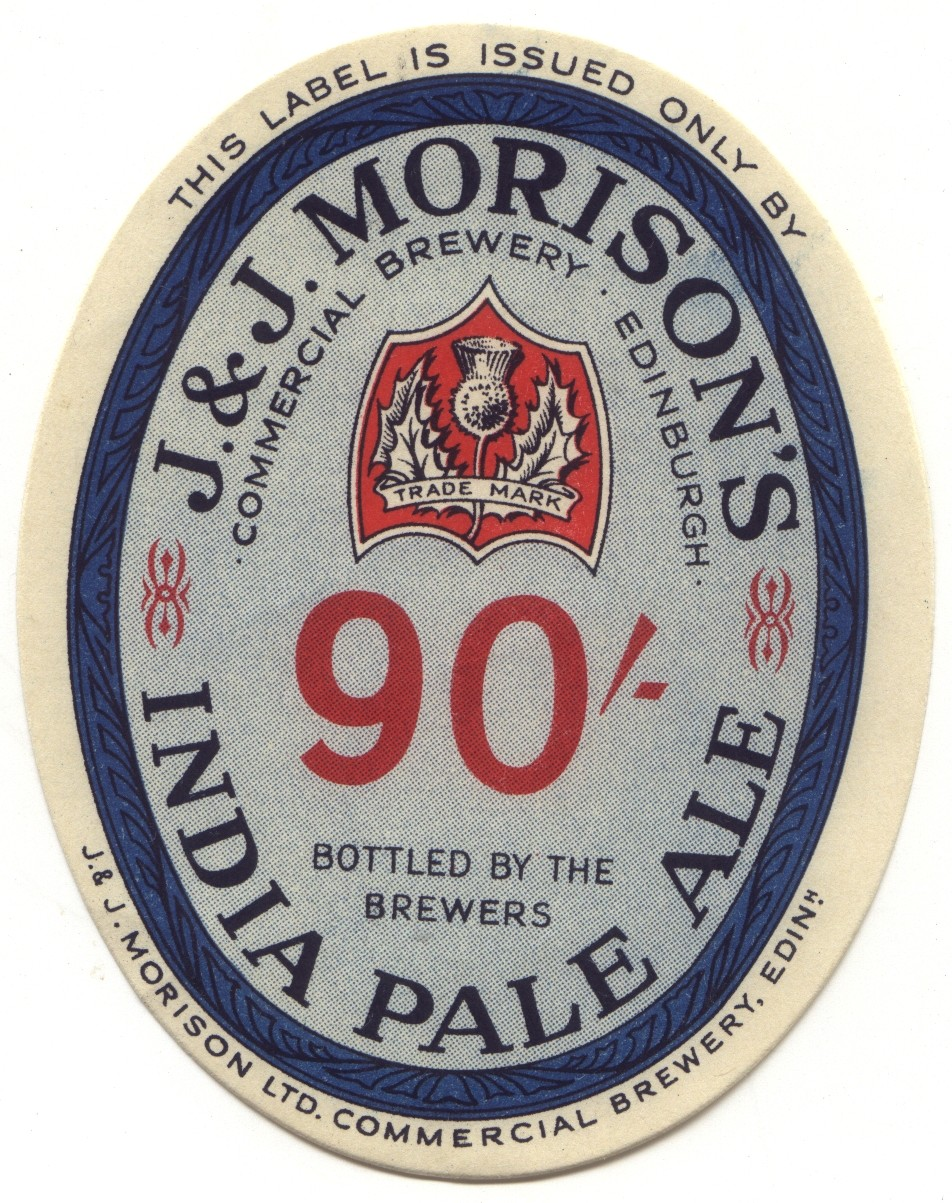 J & J Morison Ltd acquired the Commercial Brewery (1868) in Sugarhouse Close in the Canongate in 1877. In 1960 the company was taken over by Scottish Brewers Ltd. Parts of the brewery complex have been converted into student flats.